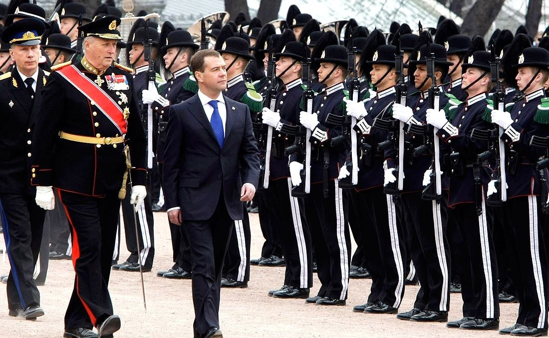 President of Russian Federation Dmitry Medvedev pay an official two-day visit to Norway. Official greeting ceremony. With King Harald V of Norway.